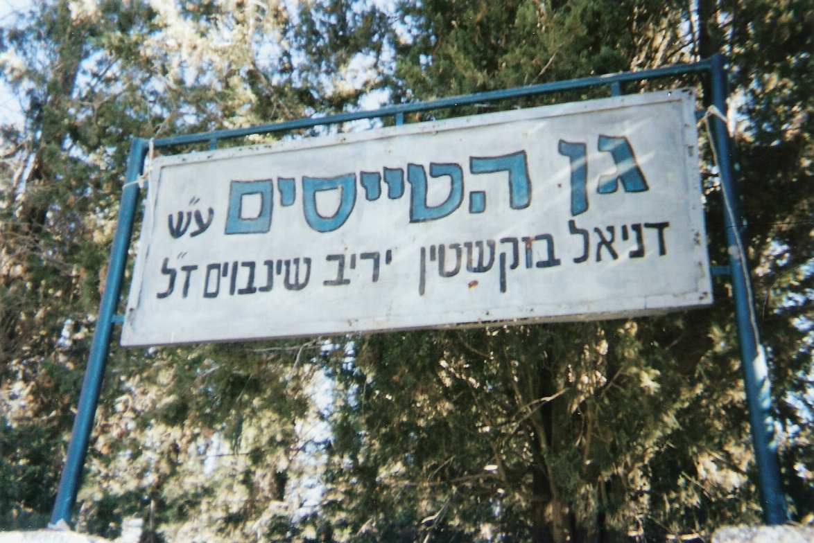 Gan HaTayasim -- Memorial garden for fallen pilots, Givat Yearim, Israel